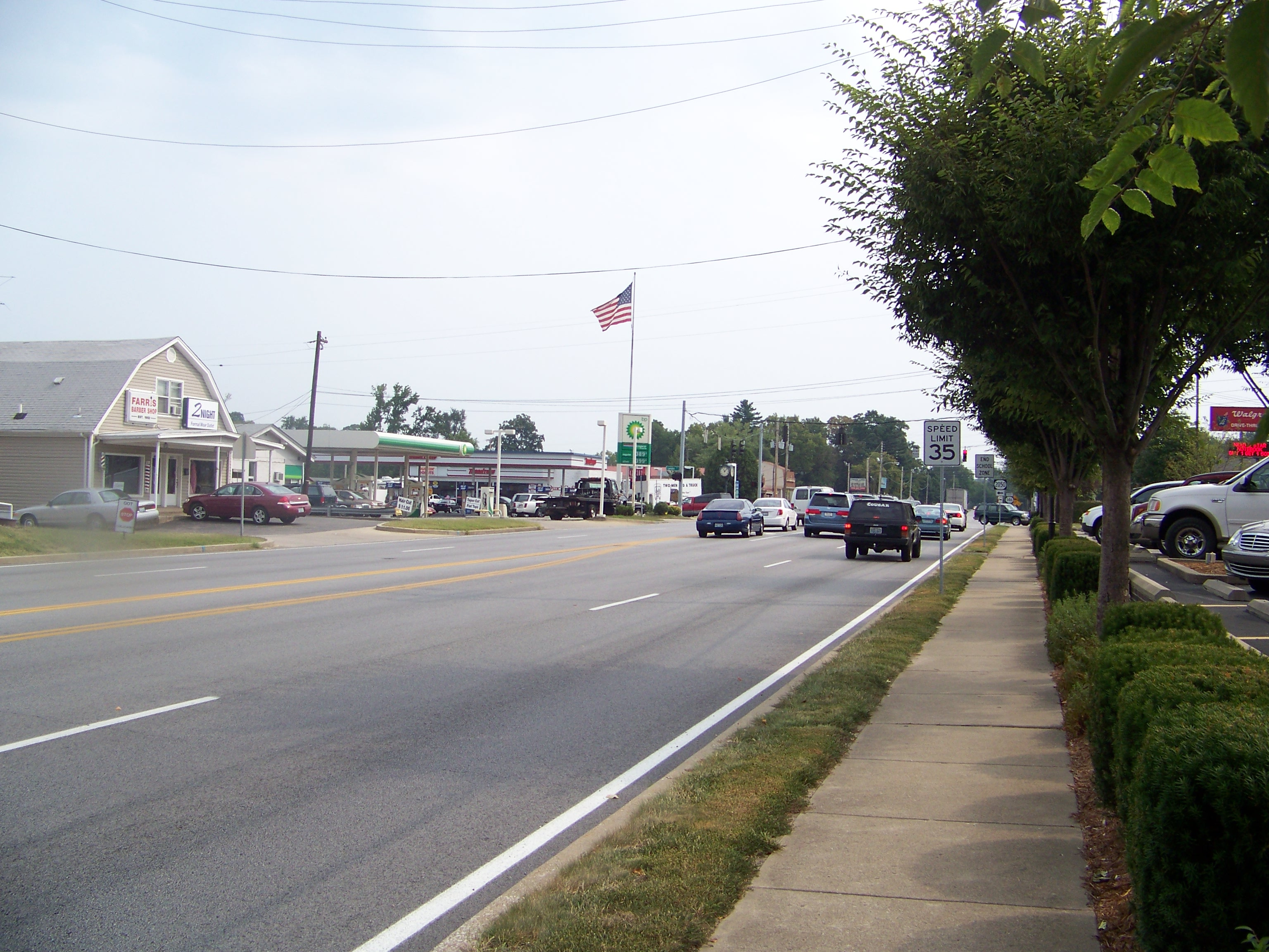 street in Lyndon ky